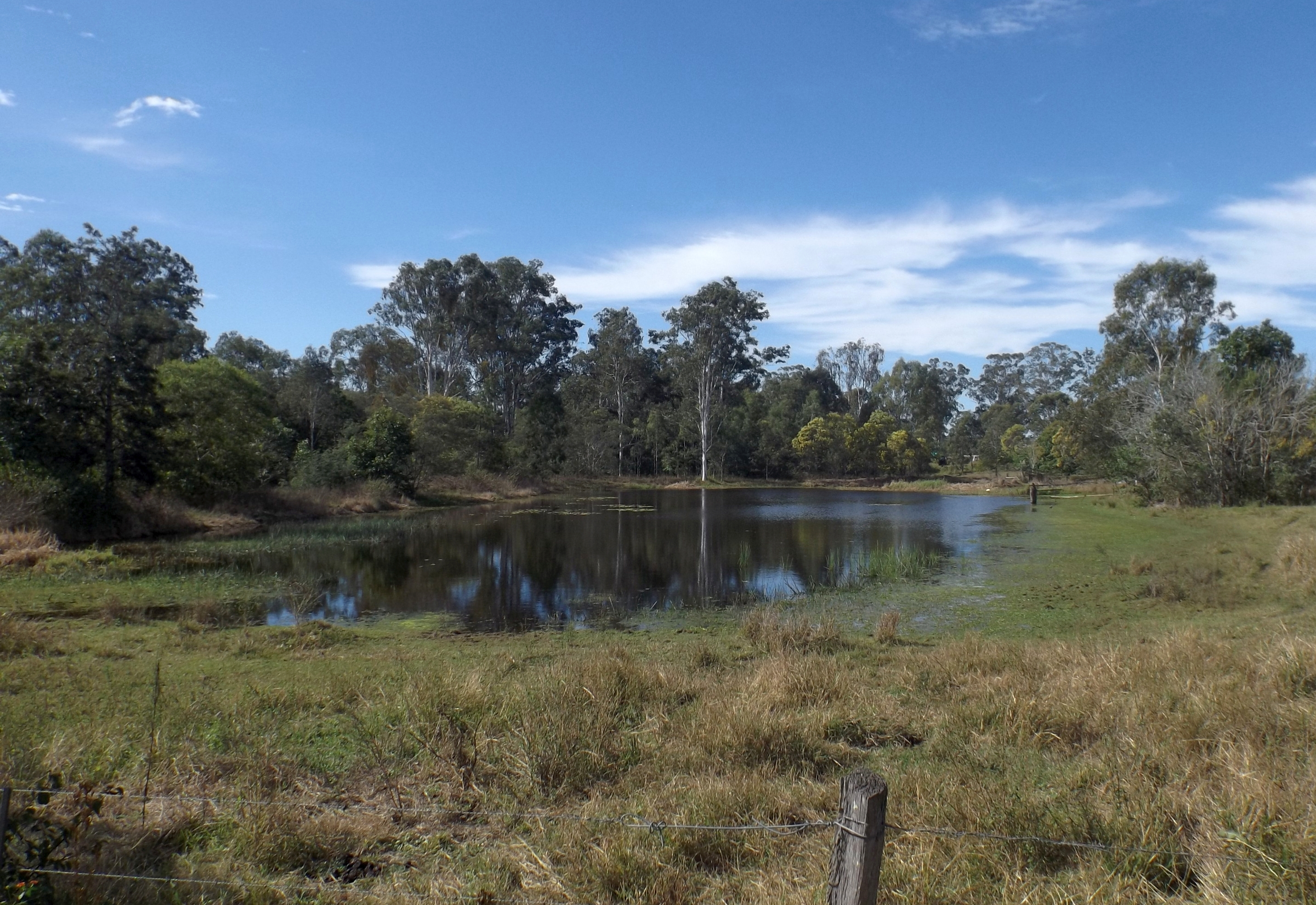 Photo of farm at Karrabin, Ipswich, Queensland, Australia.